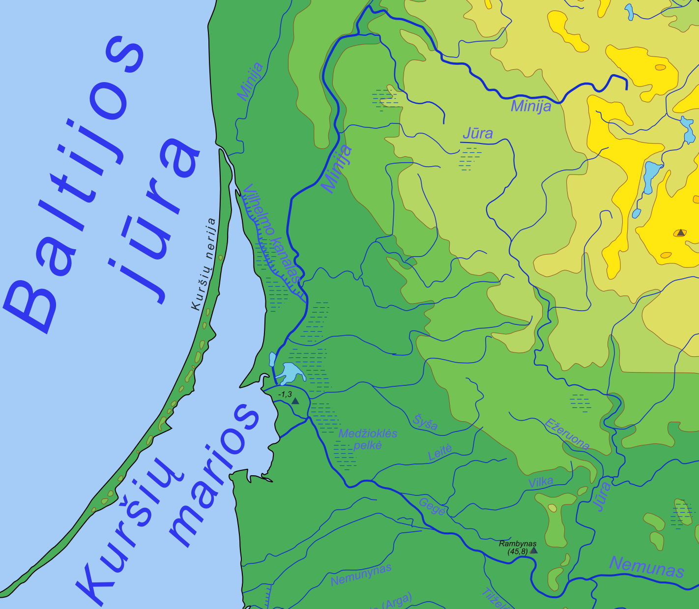 Vilhelmo kanalas ir Minija. Iš lt::Image:LithuaniaPhysicalMap-Clean.svg